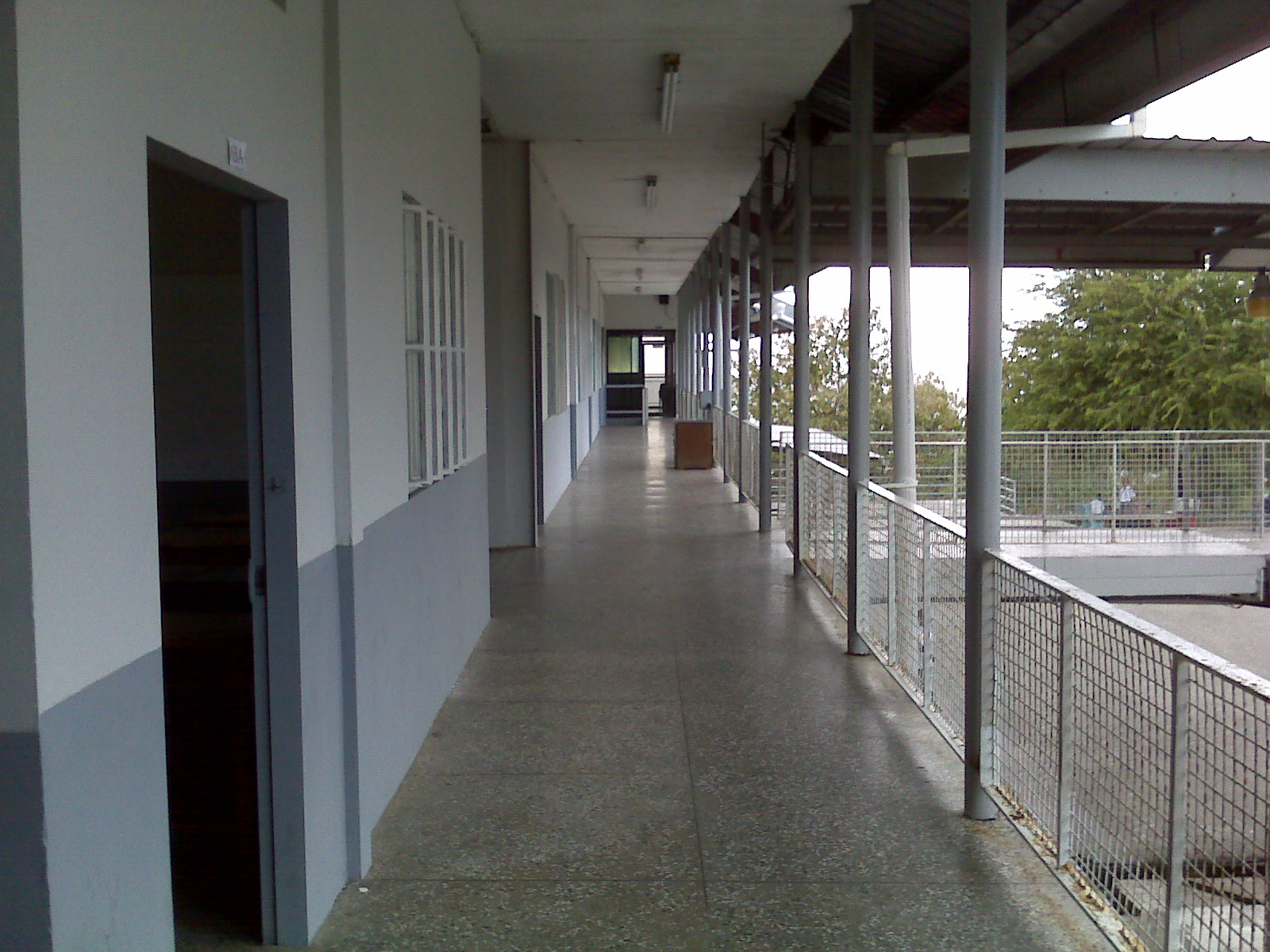 The 2nd Floor of the Form 6 Block, in Grant's Memorial Wing of Naparima College — in San Fernando, Trinidad and Tobago.